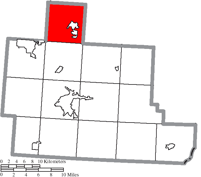 Map of the municipal and township boundaries of Athens County, Ohio, United States, as of the 2000 census, with the location of Trimble Township highlighted. Township borders are shown only in unincorporated areas in order to differentiate incorporated and unincorporated areas more clearly.